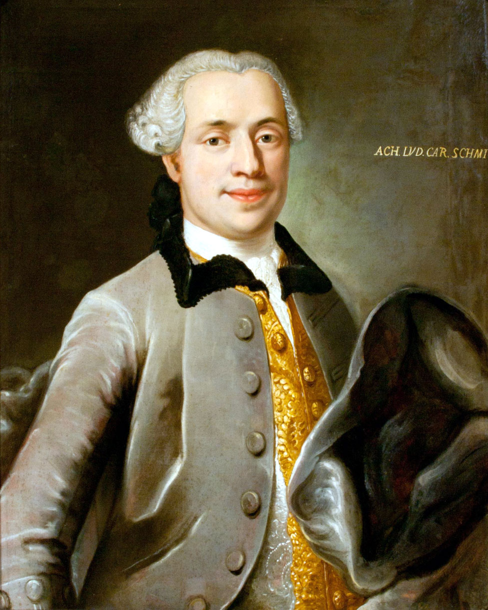 Achatius Ludwig Carl Schmid (1725-1784) German Jurist and government officials in Saxony-Weimar